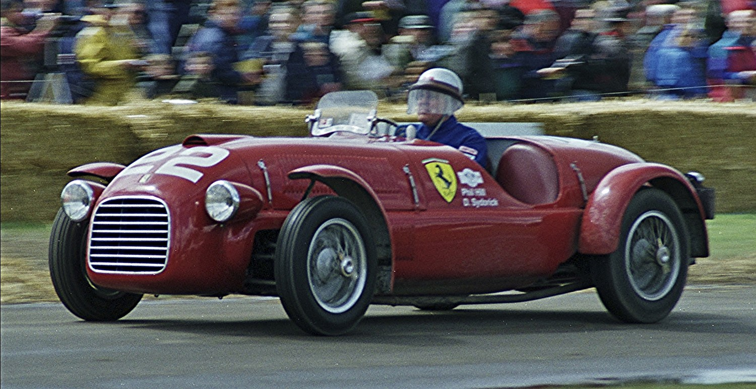 1947 Ferrari 159 C s/n 002 driven by owner David Sydoric at the 1997 Godwood Festival Off Speed.